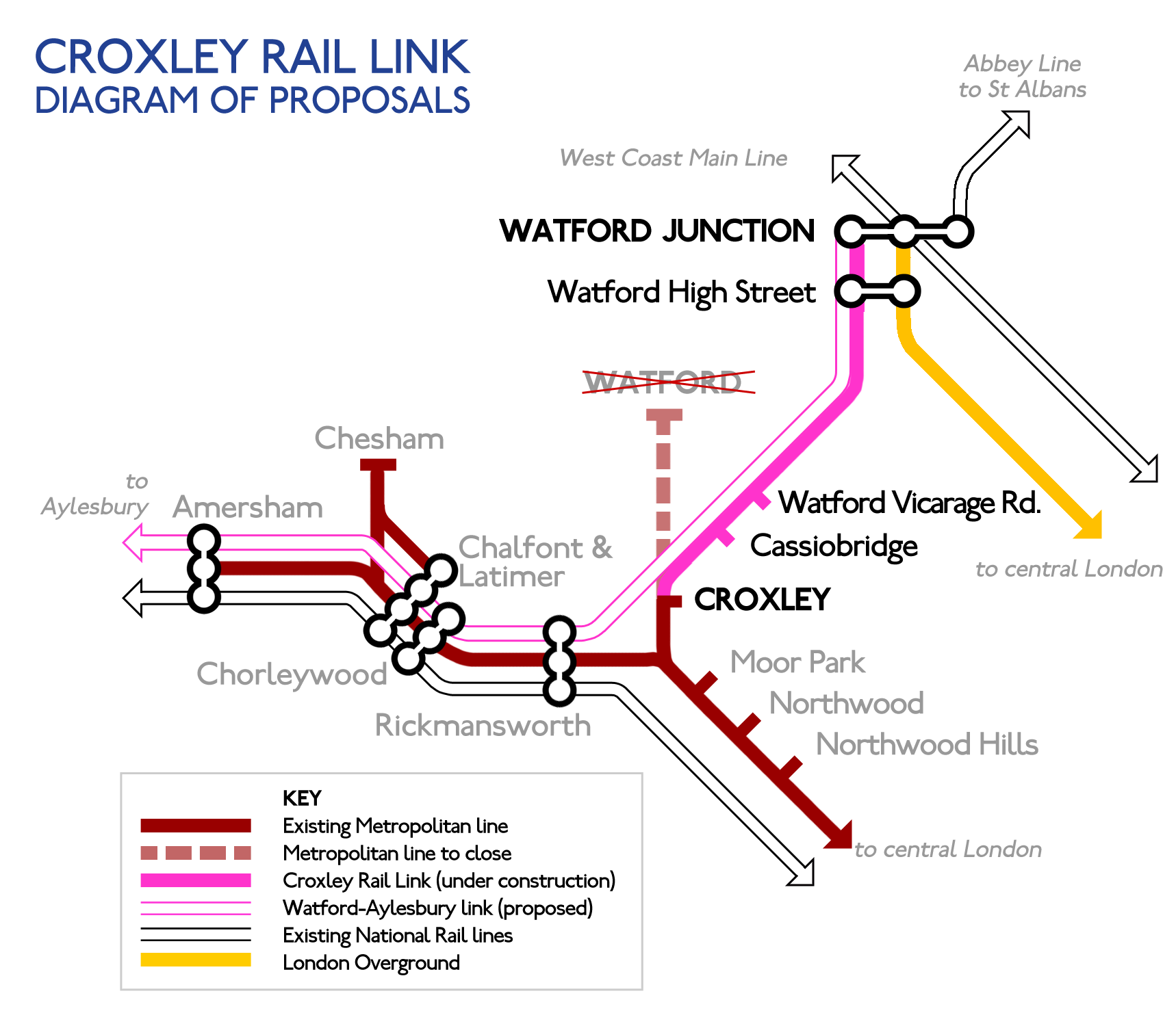 Diagram illustrating the proposed Croxley Rail link outside London, UK, showing Metropolitan line, National Rail and London Overground, with the additional proposed route to Aylesbury. This diagram is based on the proposals described by Transport for London.